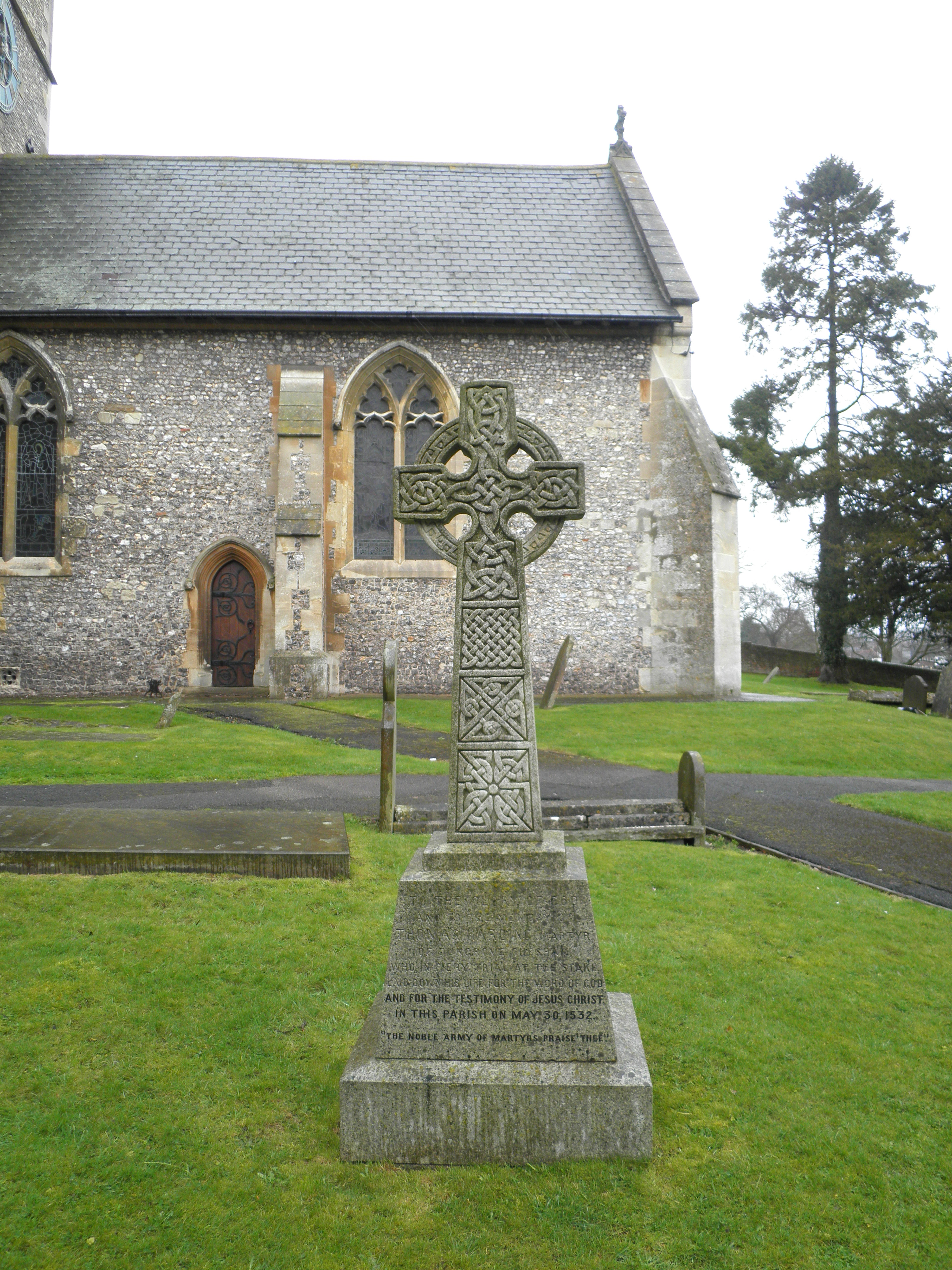 Memorial to Lollard martyr Thomas Harding in the churchyard of St Mary's Church, Chesham, Buckinghamshire